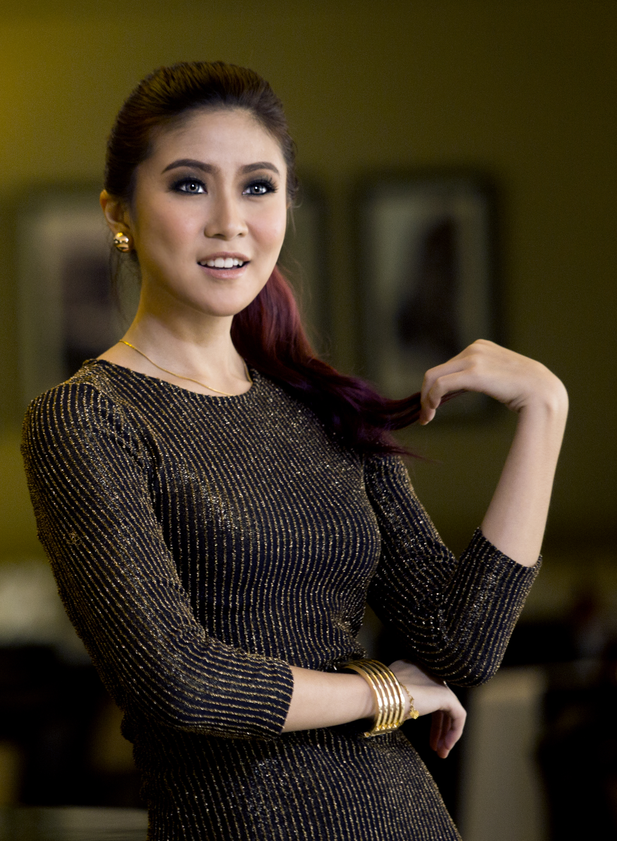 Profile Picture of Elizabeth Tan